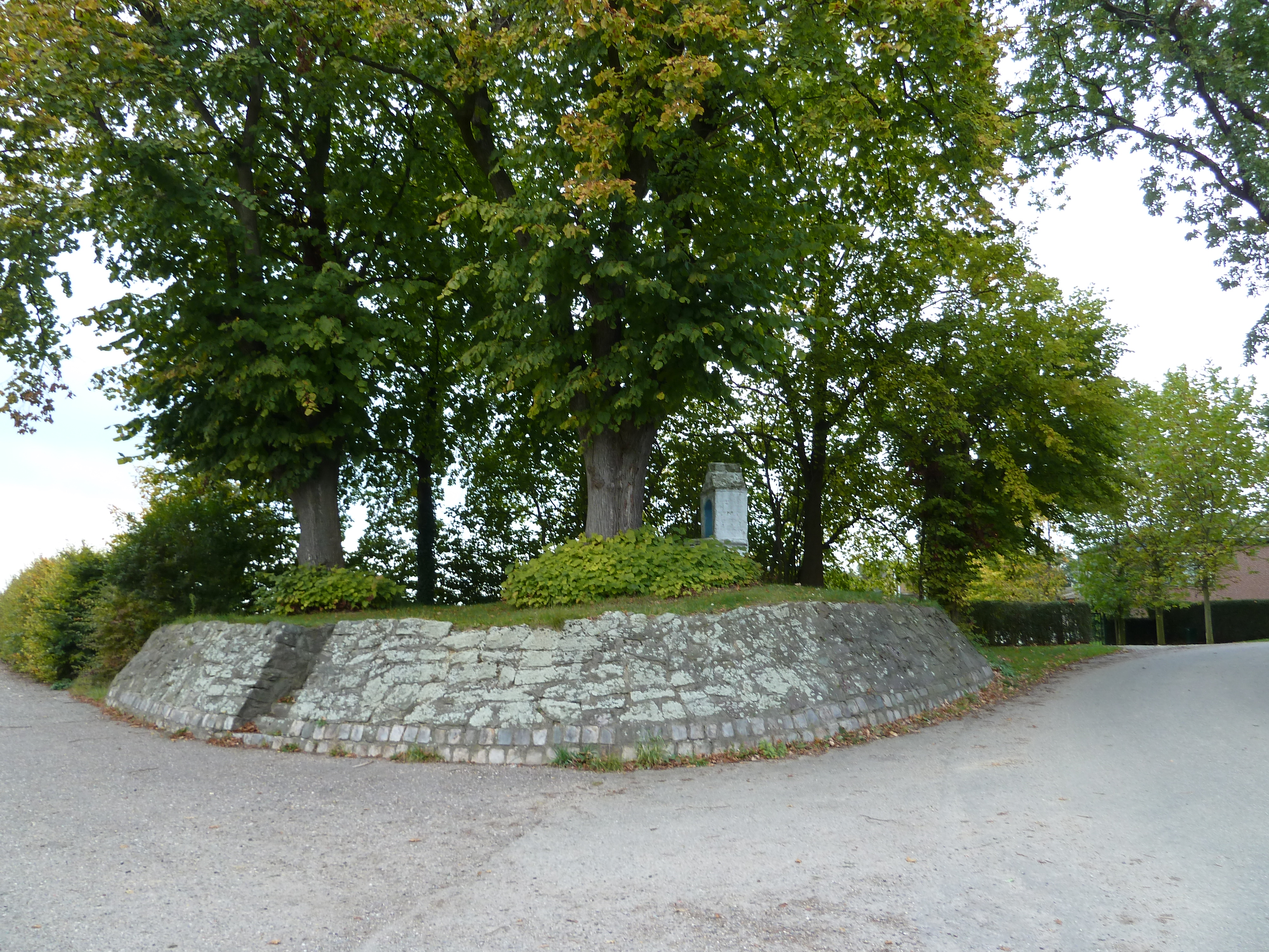 Chapel at crossing Schansweg-Rijksweg, Berg, Limburg, the Netherlands